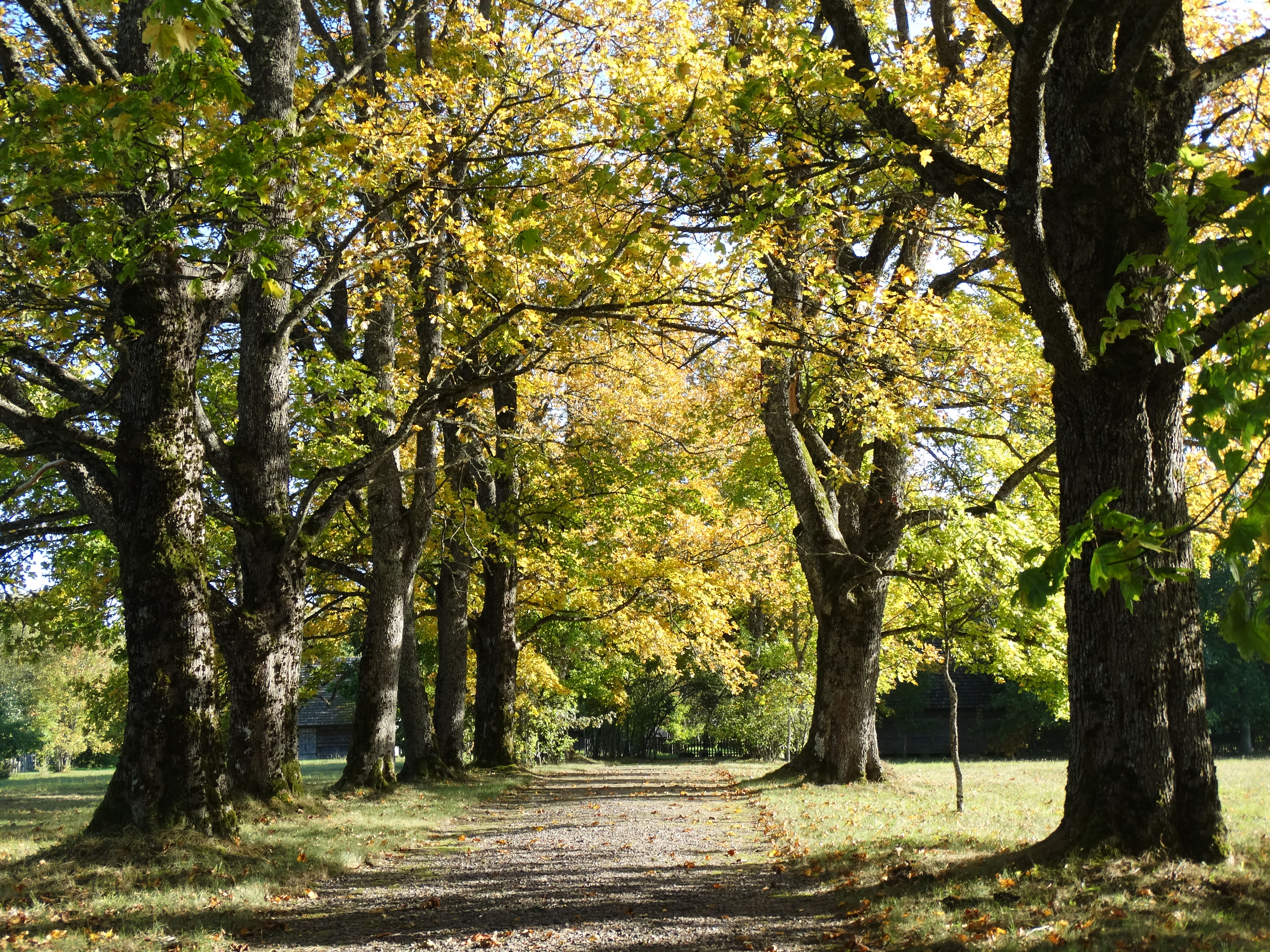 Simonas Stanevičius native homestead, Kanopėnai, Raseiniai district, Lithuania